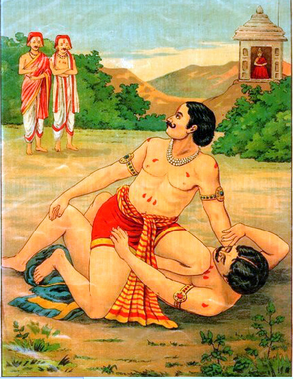 From Baroda art gallery